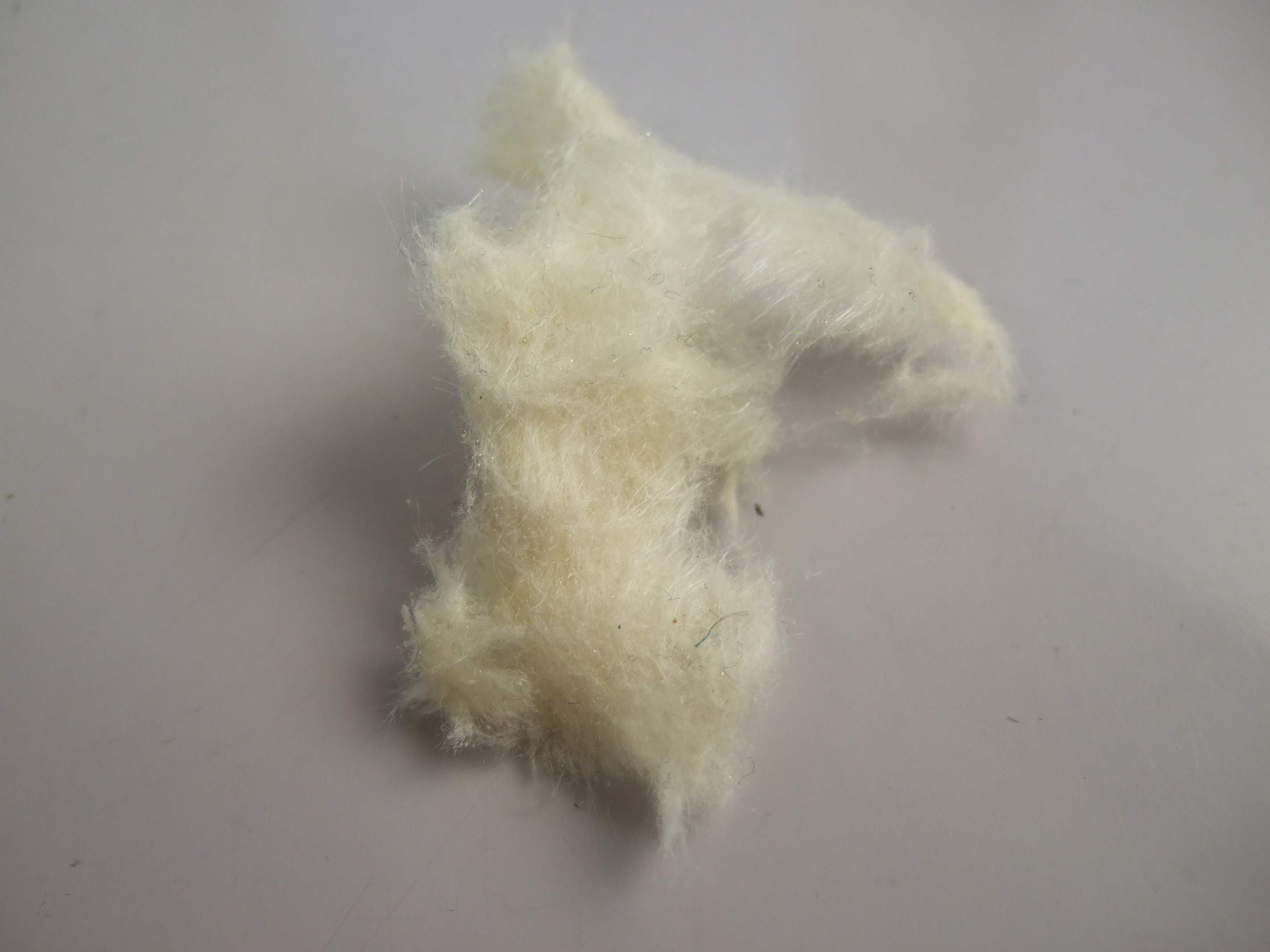 Stone wool (Insulation made from slag)